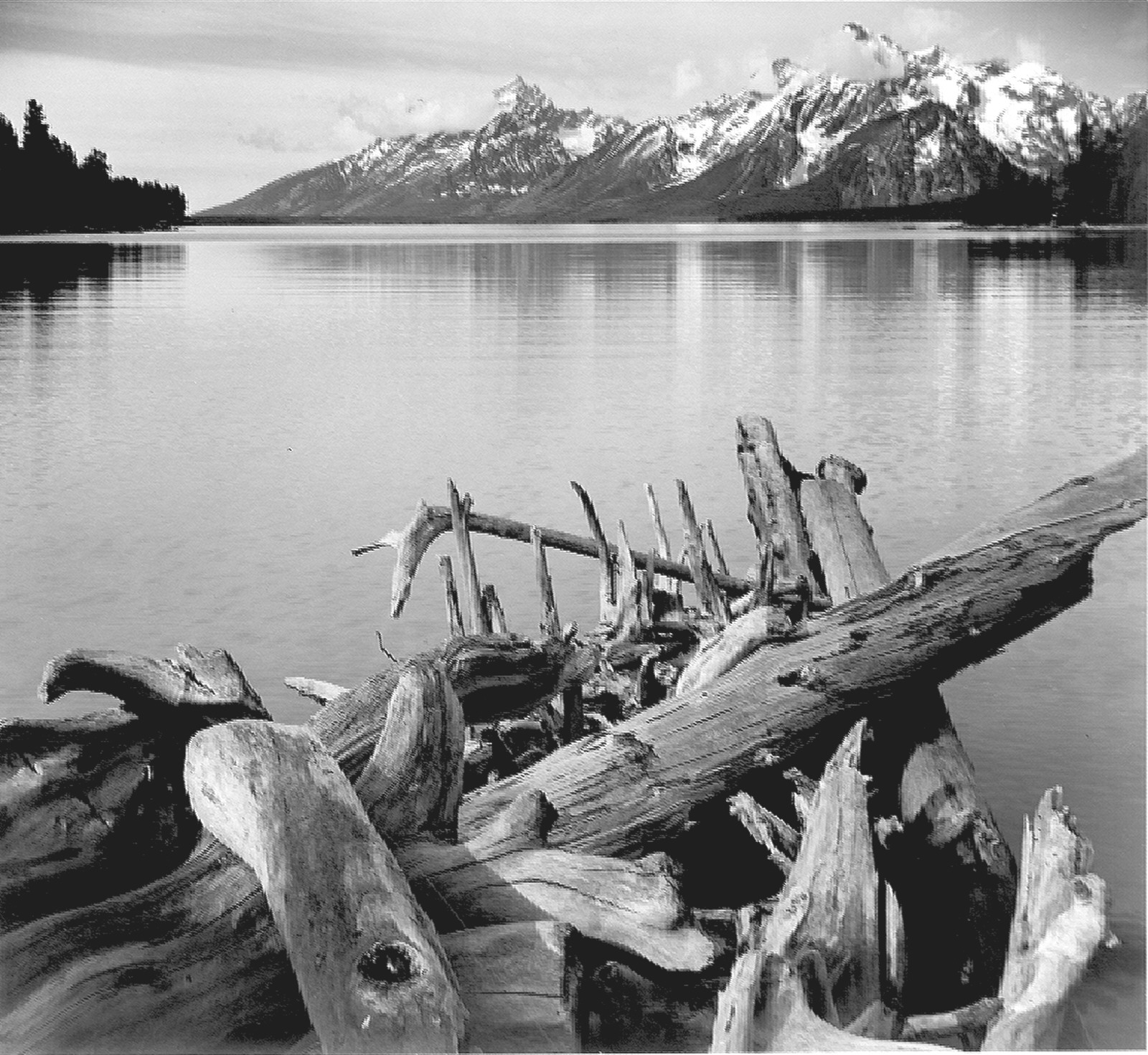 79-AAG-6 No caption provided by Mr. Adams. [Jackson Lake in foreground, with Teton Range in background, view looking southwest from north end of the lake.] -May need an ultra high resolution scan to do justice to this print -Mak 22:32, 3 April 2006 (UTC)